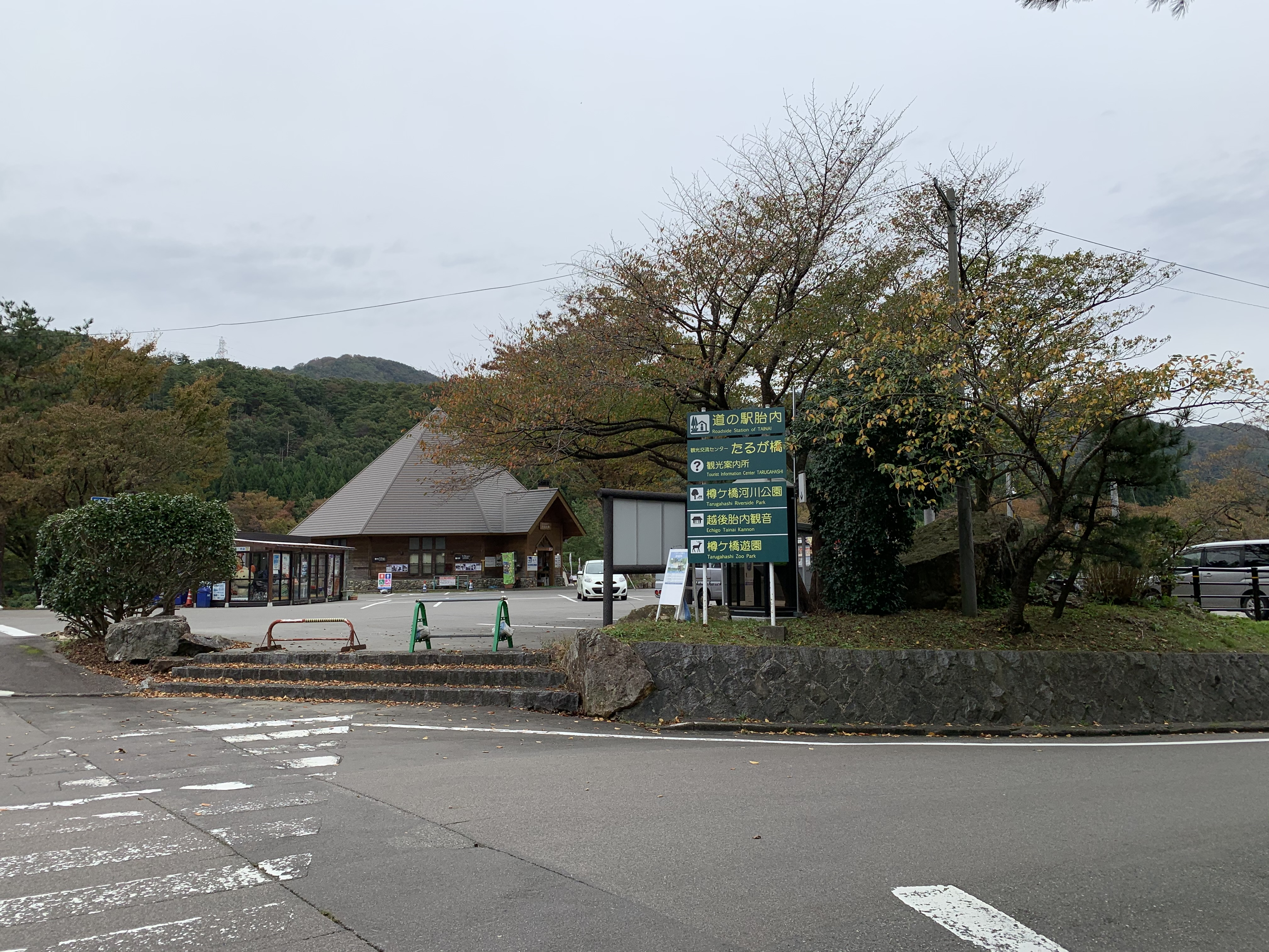 Tainai, Michi no Eki (Roadside Station), Niigata, Japan. Took photo in October 2019.